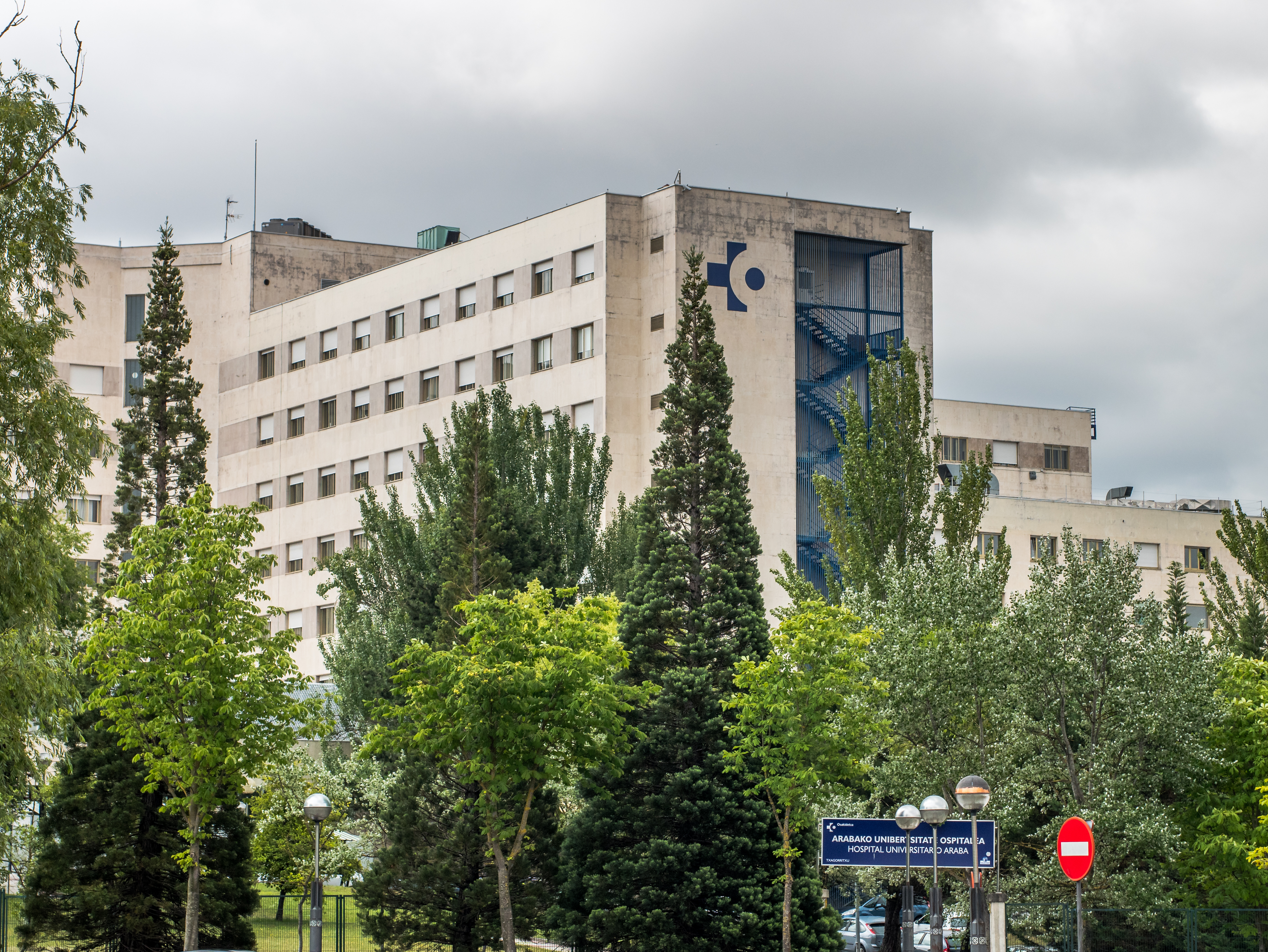 Txagorritxu hospital. Vitoria-Gasteiz, Basque Country, Spain